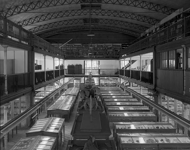 Second-floor Hall of the Wagner Free Institute of Science, 1700 Montgomery Ave., Philadelphia, PA (1859-65), John McArthur, Jr., architect.